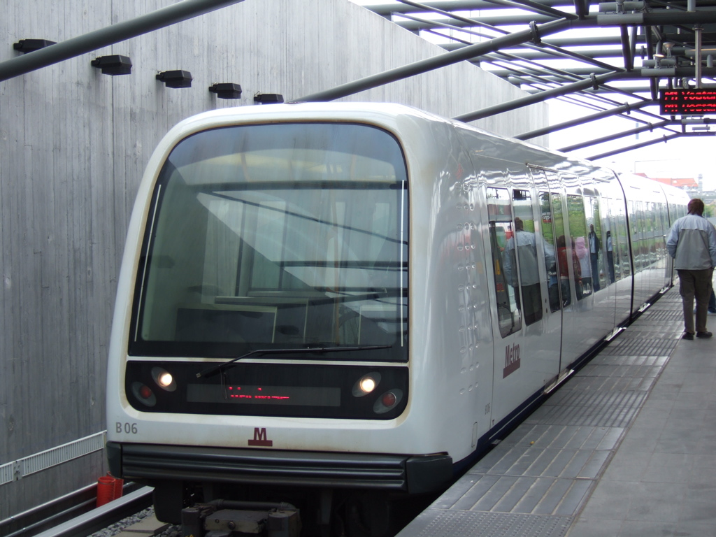 Taken May 20, 2006 at Vanløse station, Copenhagen, Denmark by the author.